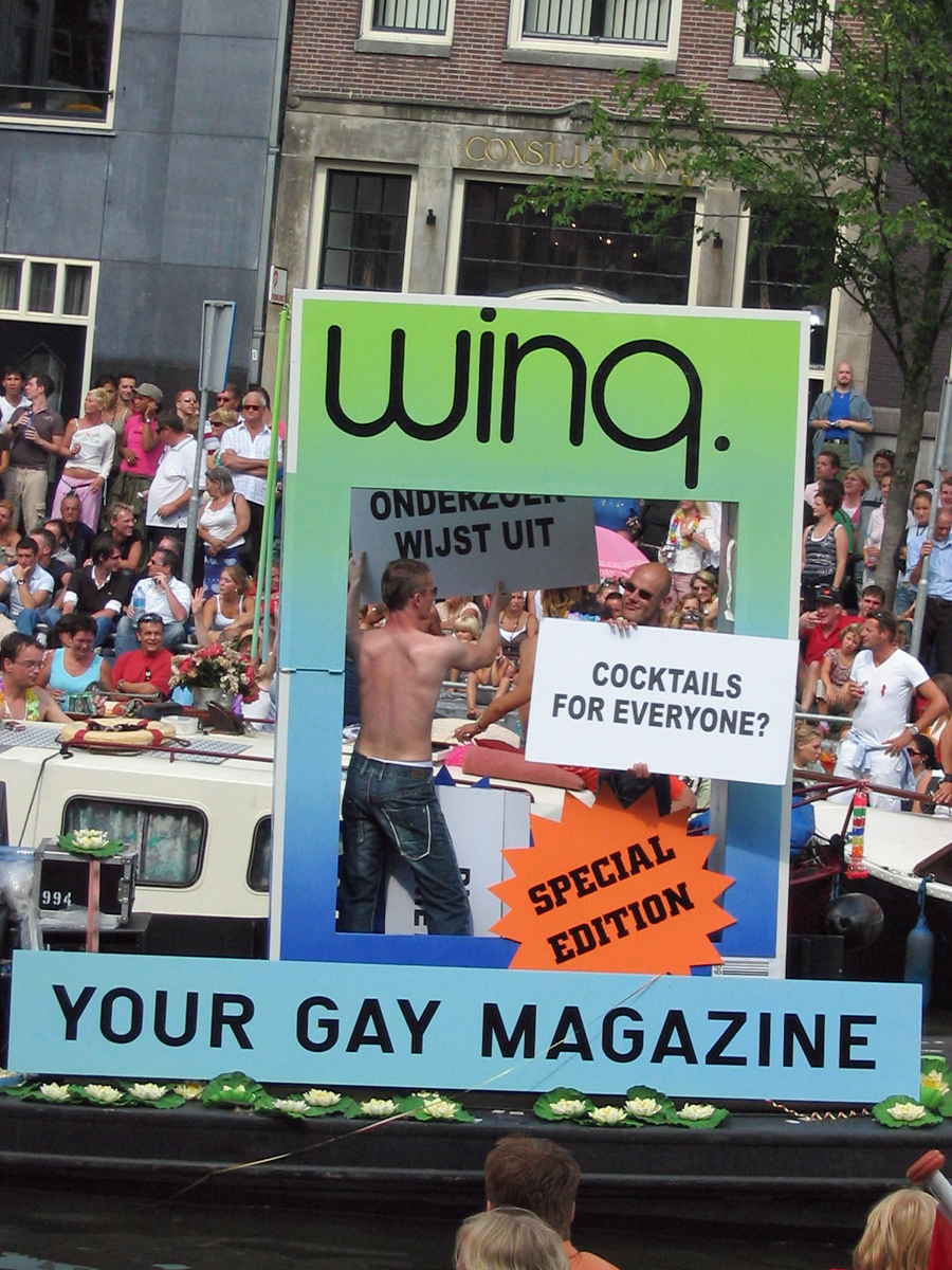 Boat of the Dutch gay lifestyle magazine Winq during the Canal Parade of the Amsterdam Gay Pride in 2006